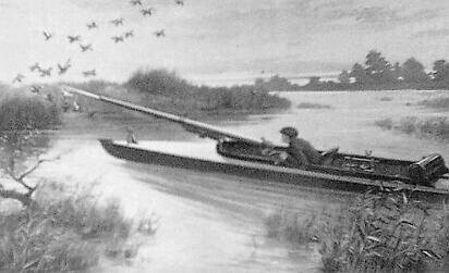 A punt gun is a type of extremely large shotgun used in the 19th and early 20th centuries for shooting large numbers of waterfowl for commercial harvesting operations and private sport. Punt guns were usually custom-designed and so varied widely, but could have bore diameters exceeding 2 inches (51 mm) and fire over a pound (≈ 0.45 kg) of shot at a time. A single shot could kill over 50 waterfowl resting on the water's surface. They were too big to hold and the recoil so large that they were mounted directly on the punts used for hunting, hence their name.